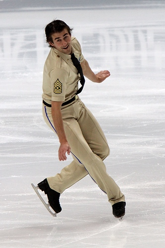 Ryan BRADLEY at the 2011 World Figure Skating Championships